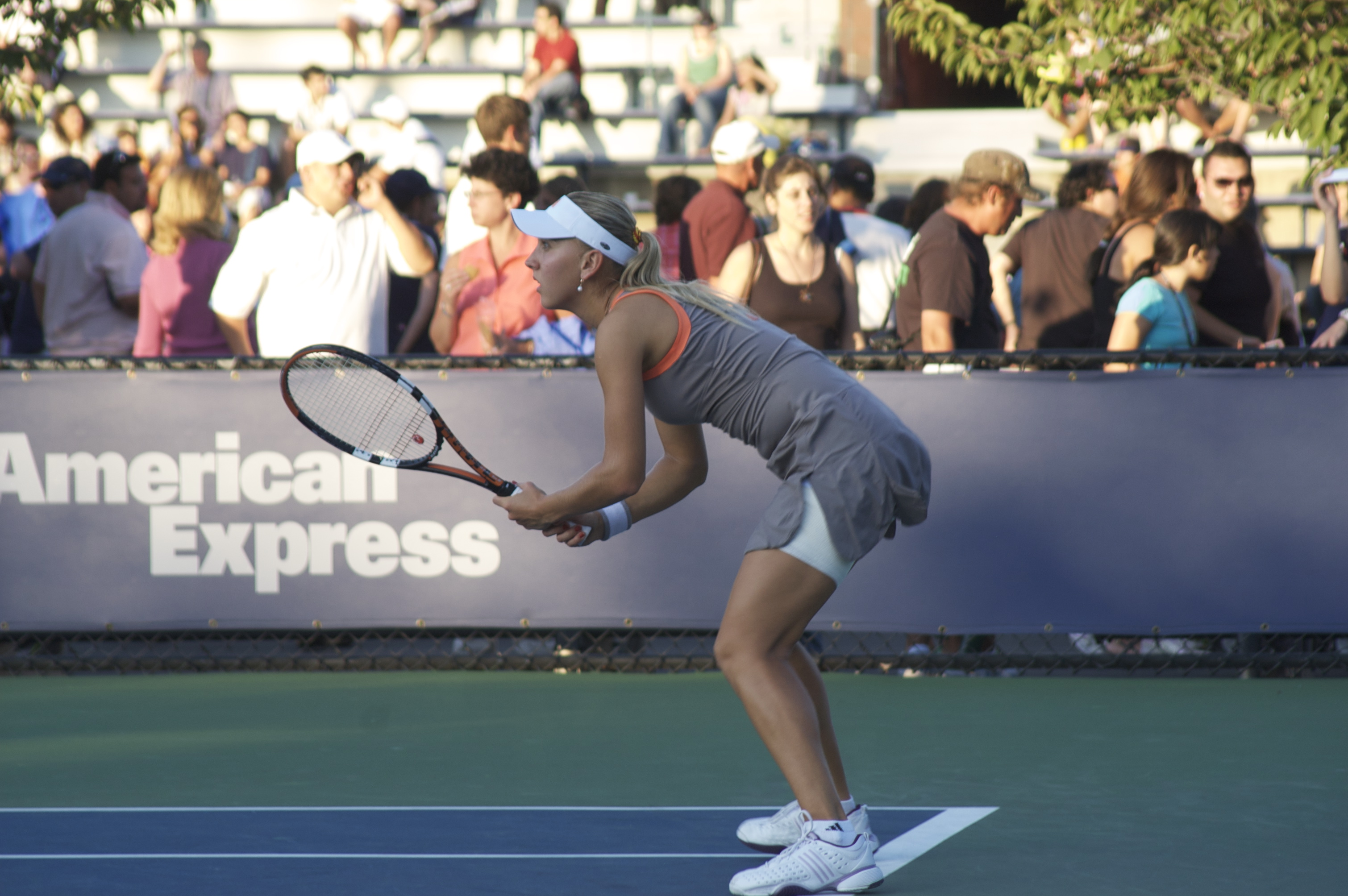 Elena Vesnina at the 2008 U.S. Open - Women's Singles